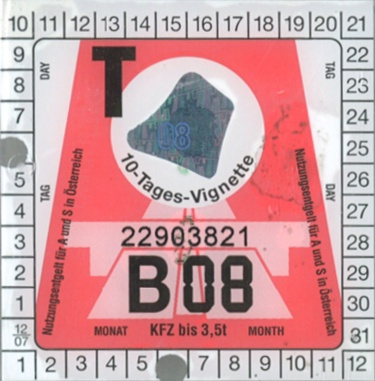 Austrian highway vignette (2008)